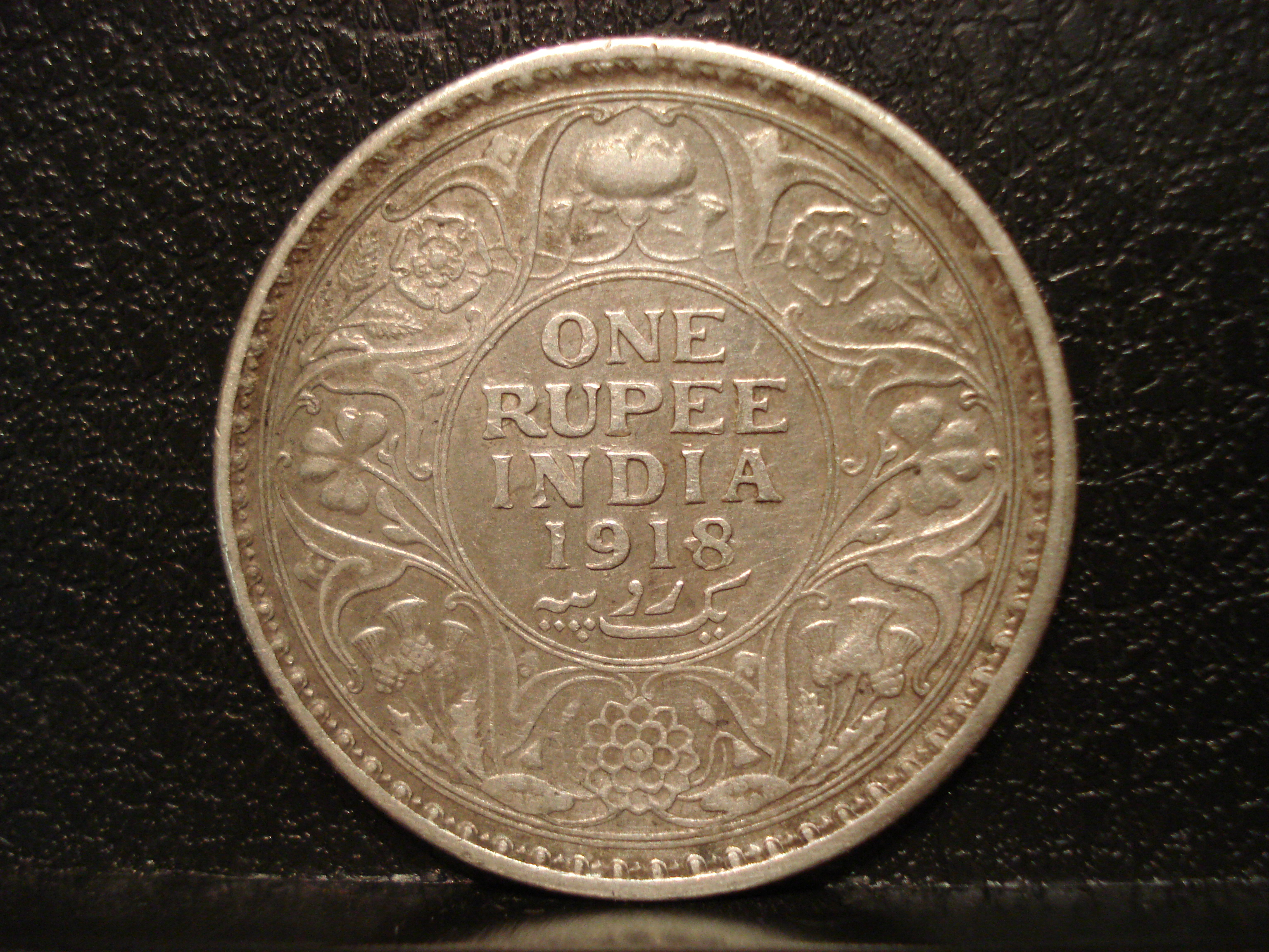 British Indian Rupee coin of 1918, reverse, made of silver.